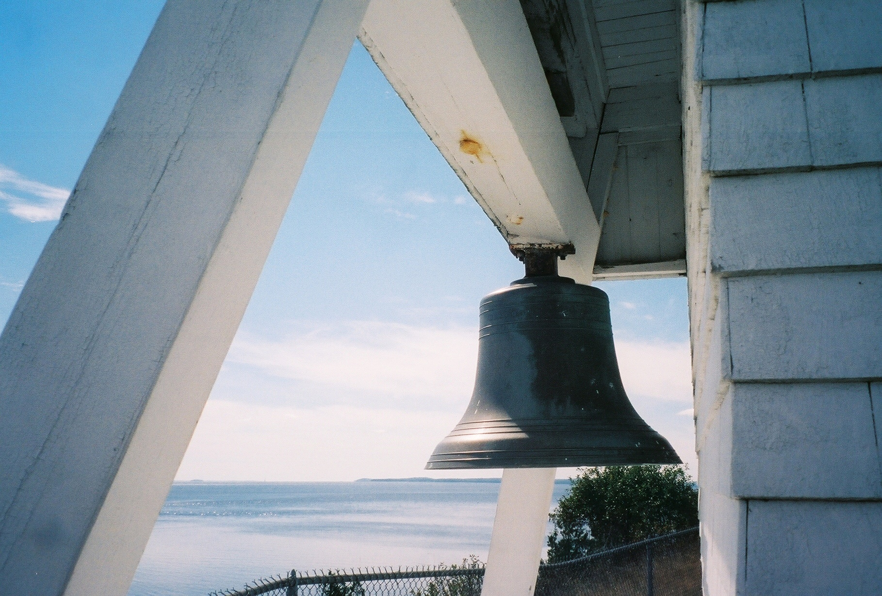 Fort Point Light Station fog signal bell, Fort Point State Park, Maine.